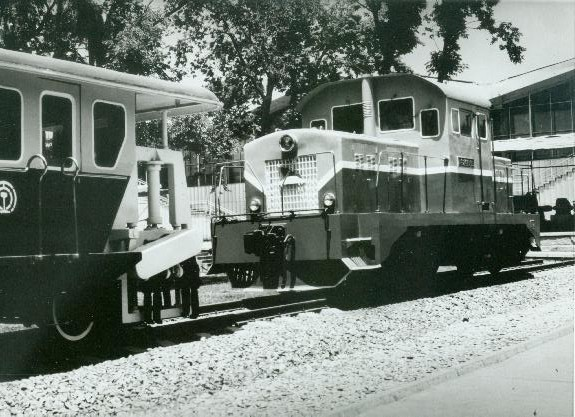 Trains made by Kim Jong Tae Electric Locomotive Factory June 1972, Pyongyang, North Korea